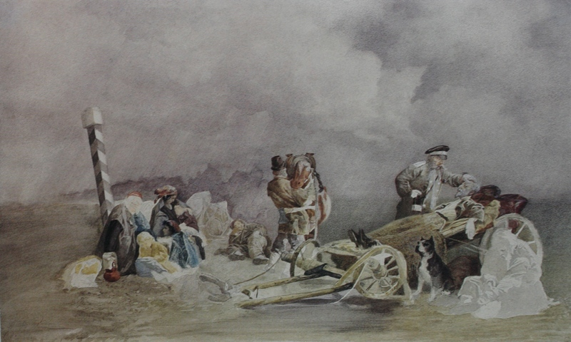 Halt for prisoners (study by Valery Jacobi, 1861)